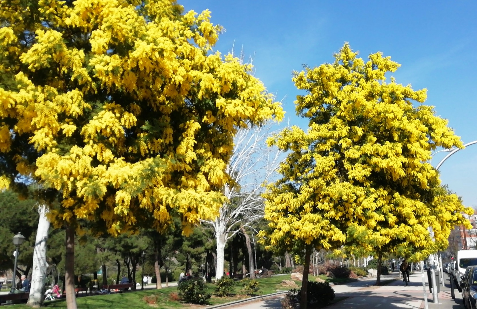 Araguaney tree taken in Madrid, Spain.